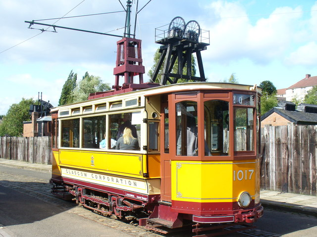 Cumoan, Gerraff!